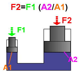 Hydraulic Force ratio principle; Language Neutral